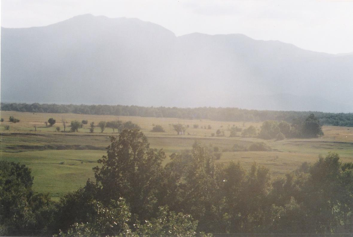 Dinara mountain - Troglav 2004 Picture taken by Marko Pokrajac from village Vrbica, Livno, Bosnia, summer 2004, and released to the public domain. Category:Images of the Federation of Bosnia and Herzegovina